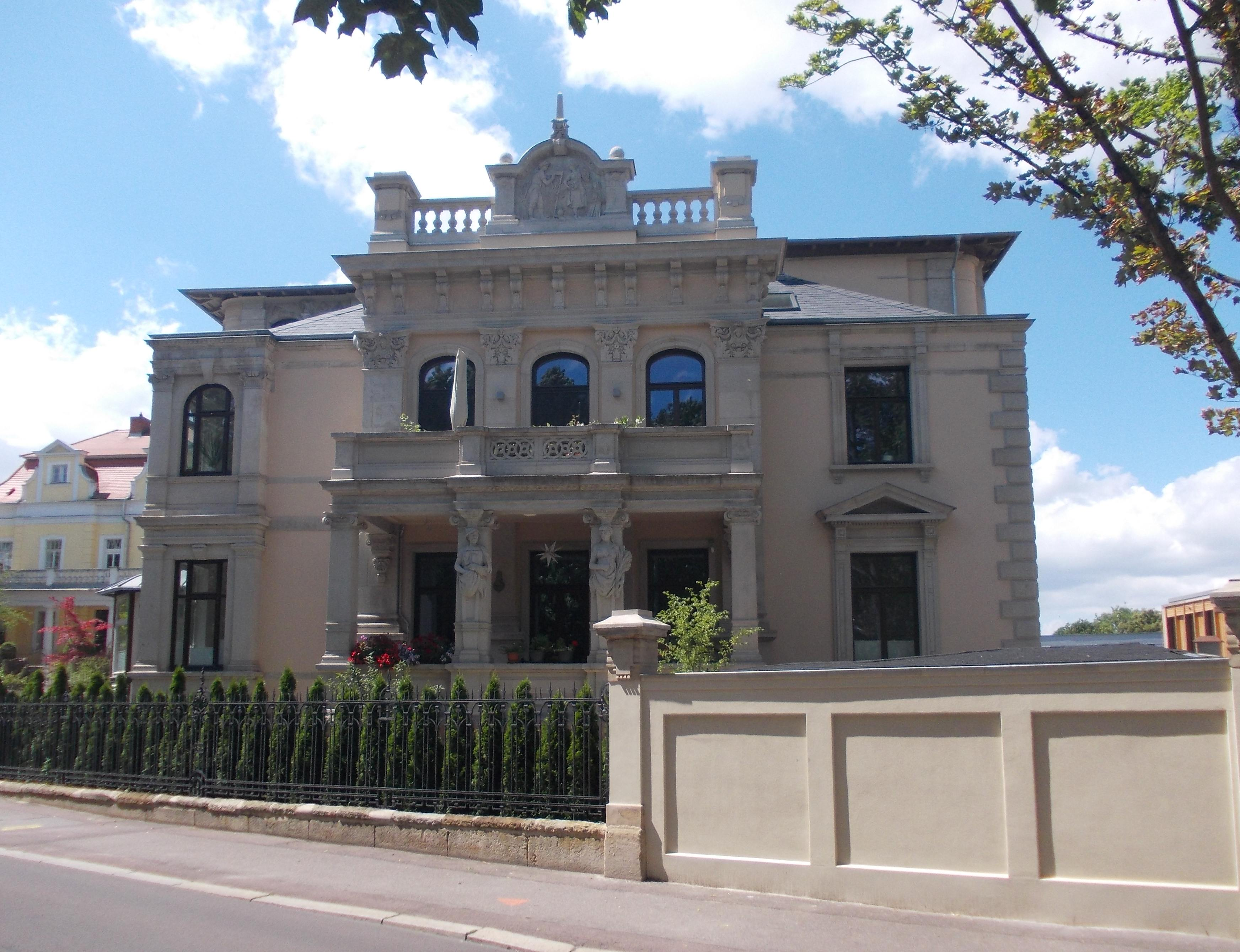 Villa Engelmann, No. 6, Neuwerk in Halle/Saale (Saxony-Anhalt)